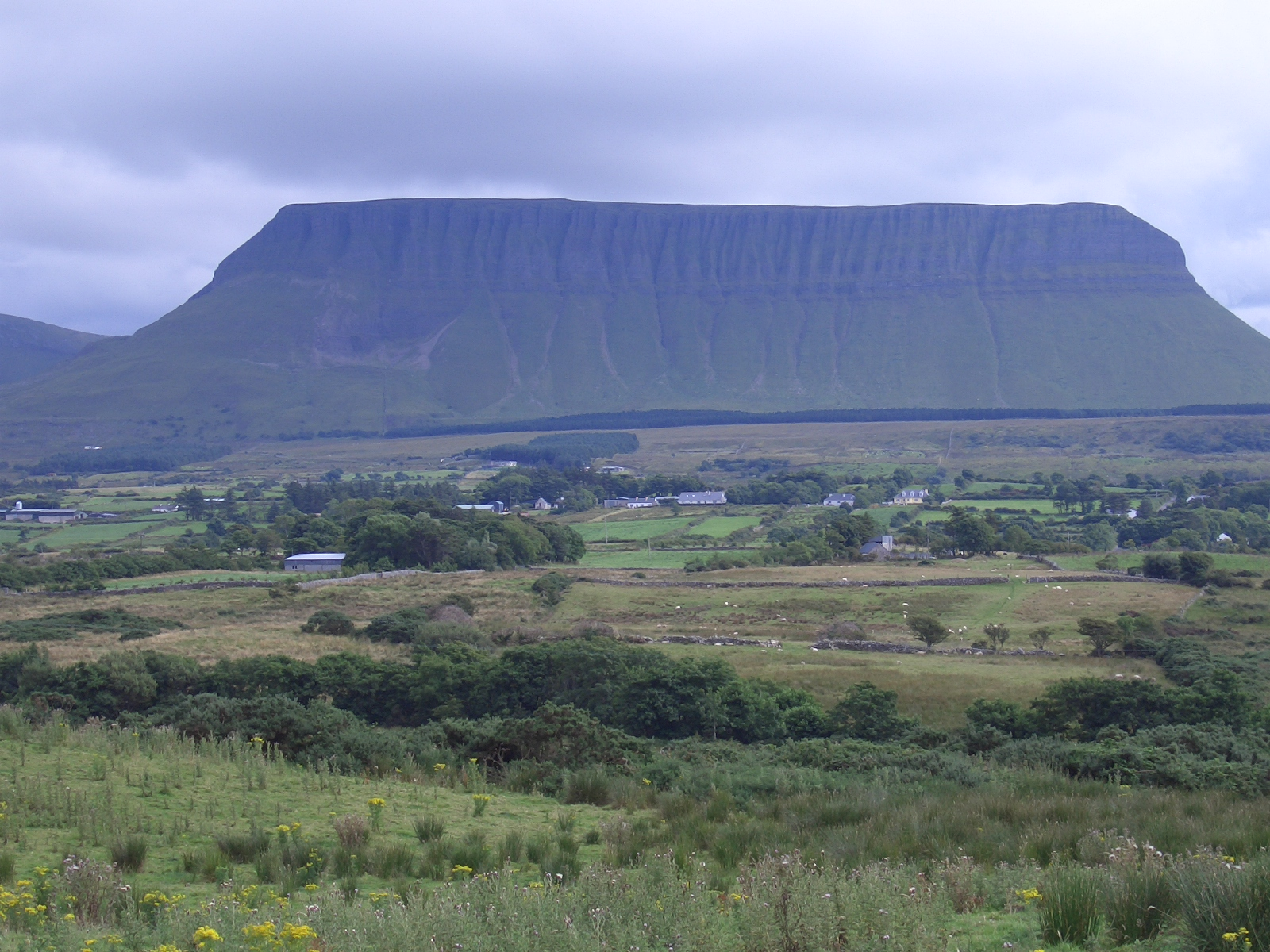 Benbulben from just North of Drumcliff